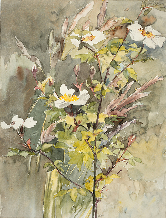 Wildflowers by Barbara Leigh Smith Bodichon, watercolor and graphite on wove paper, 11 9/16 × 8 3/4in. (29.4 × 22.2 cm), Delaware Art Museum